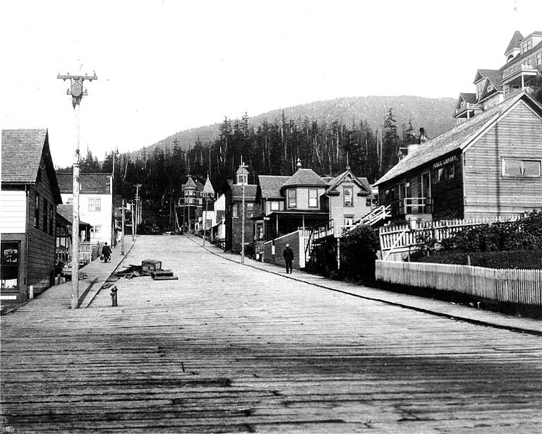 From John Cobb field notebook: Street, Ketchikan, Alaska, Sept 18, 1908 Subjects (LCTGM): Streets--Alaska--Ketchikan; Houses--Alaska--Ketchikan Subjects (LCSH): Ketchikan (Alaska)